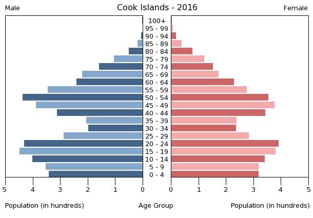 The population pyramid of Cook Islands illustrates the age and sex structure of population and may provide insights about political and social stability, as well as economic development. The population is distributed along the horizontal axis, with males shown on the left and females on the right. The male and female populations are broken down into 5-year age groups represented as horizontal bars along the vertical axis, with the youngest age groups at the bottom and the oldest at the top. The shape of the population pyramid gradually evolves over time based on fertility, mortality, and international migration trends.